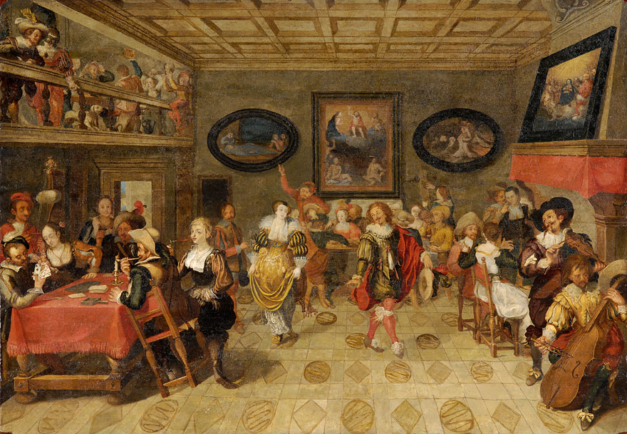 Flemish 17th century painter: Wedding party, oil on panel, 69 x 99 cm